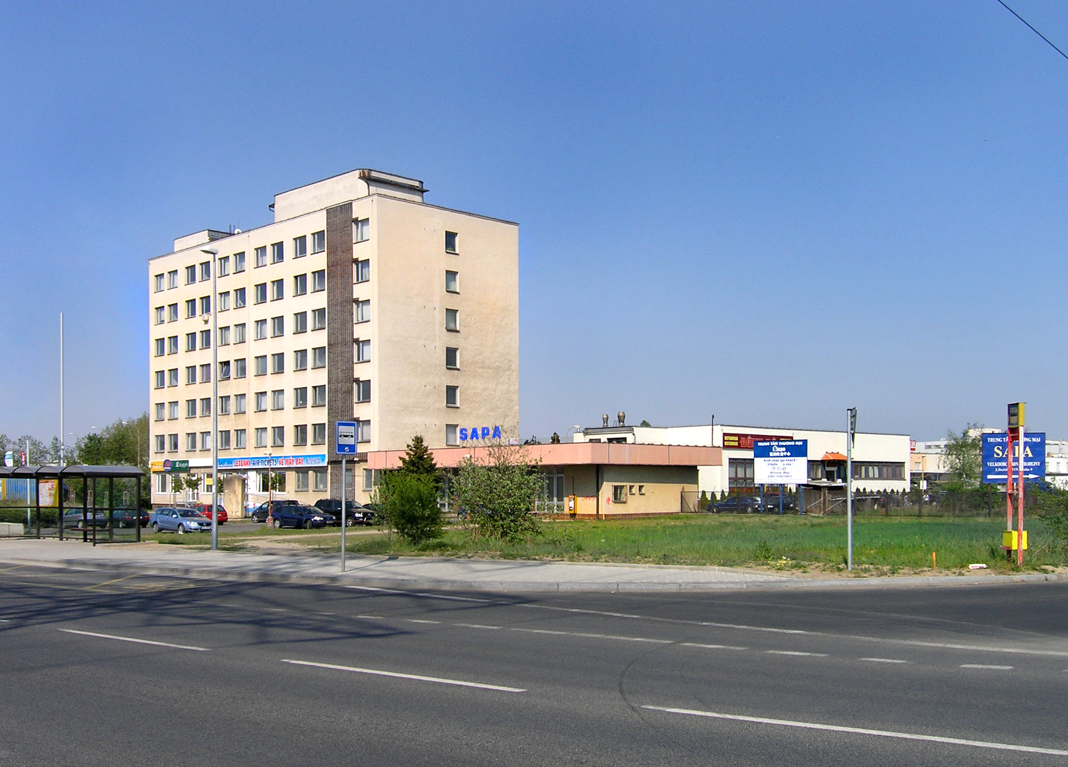 Viet Nam community center at Písnice, Prague